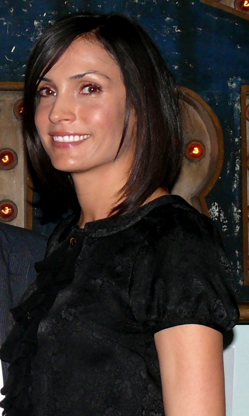 Famke Janssen at the 2008 Independent Film Festival of Boston